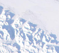 An close up on the northernmost mountain in the world, Mara Mountain.